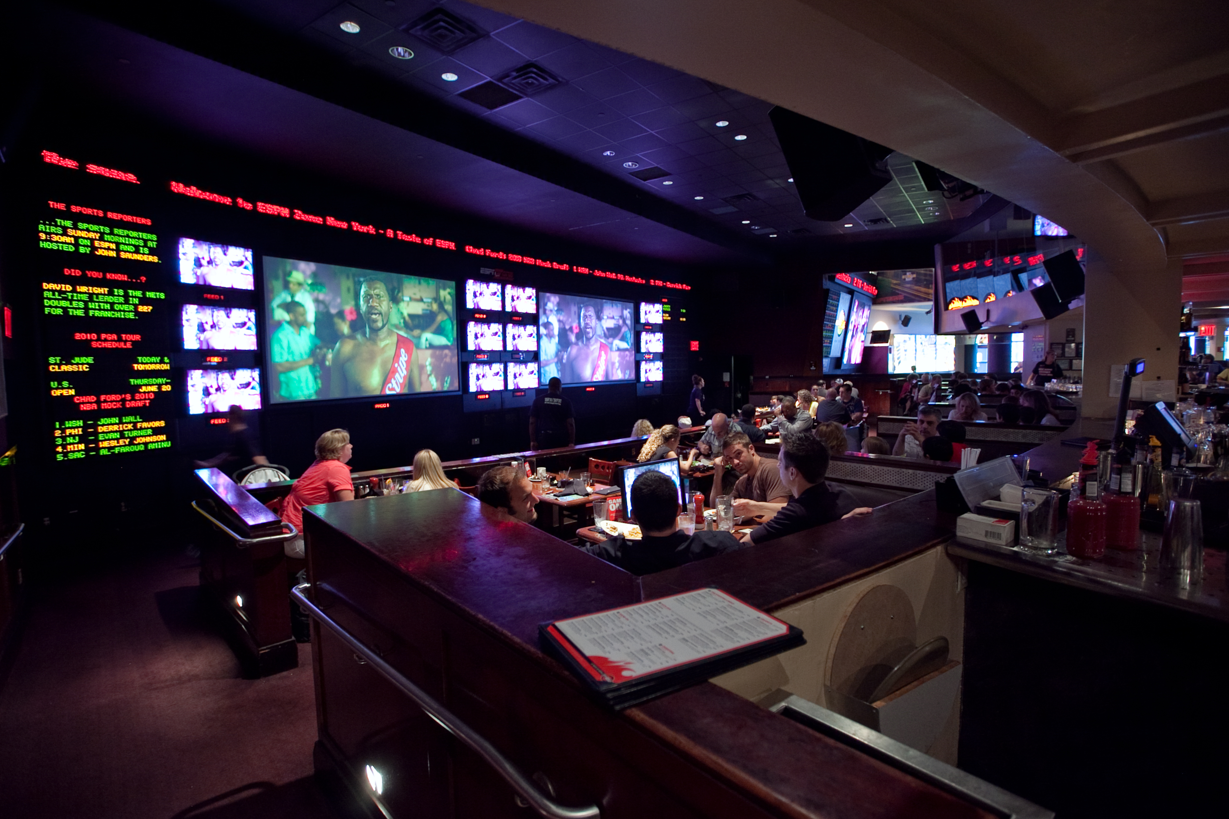 ESPN Zone restaurant and sports bar in Times Square, New York City. ESPN Zone is closing restaurants all over the country, including their NY, Washington D.C. and Las Vegas locations.